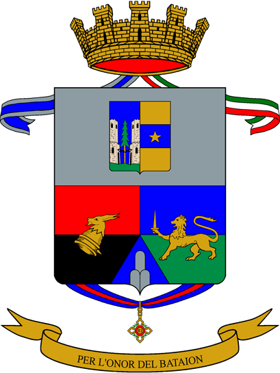 Coat of Arms of the 12° Alpini Regiment; Italian Army.